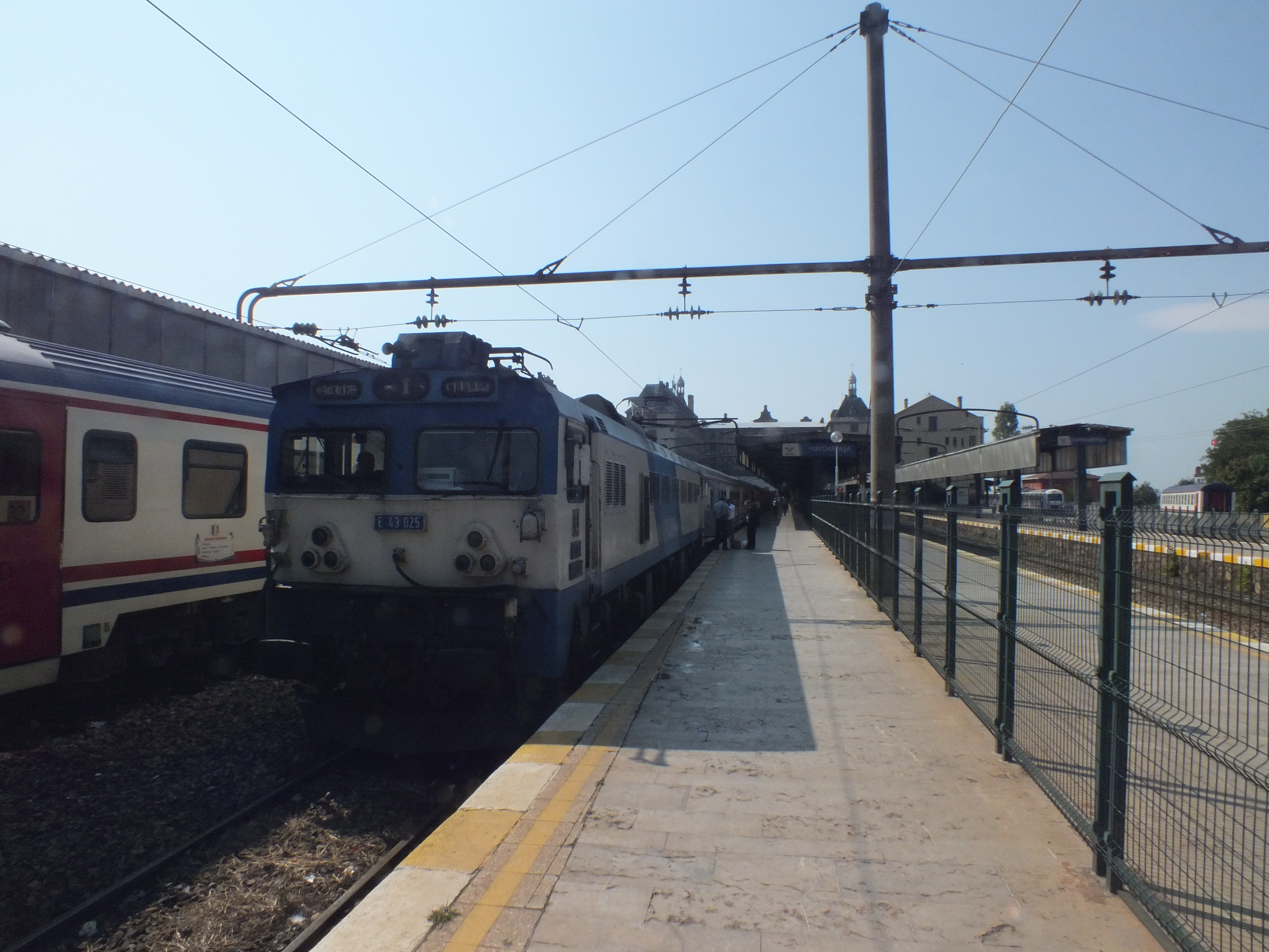 The Adapazari Express waits at Haydarpasa station.